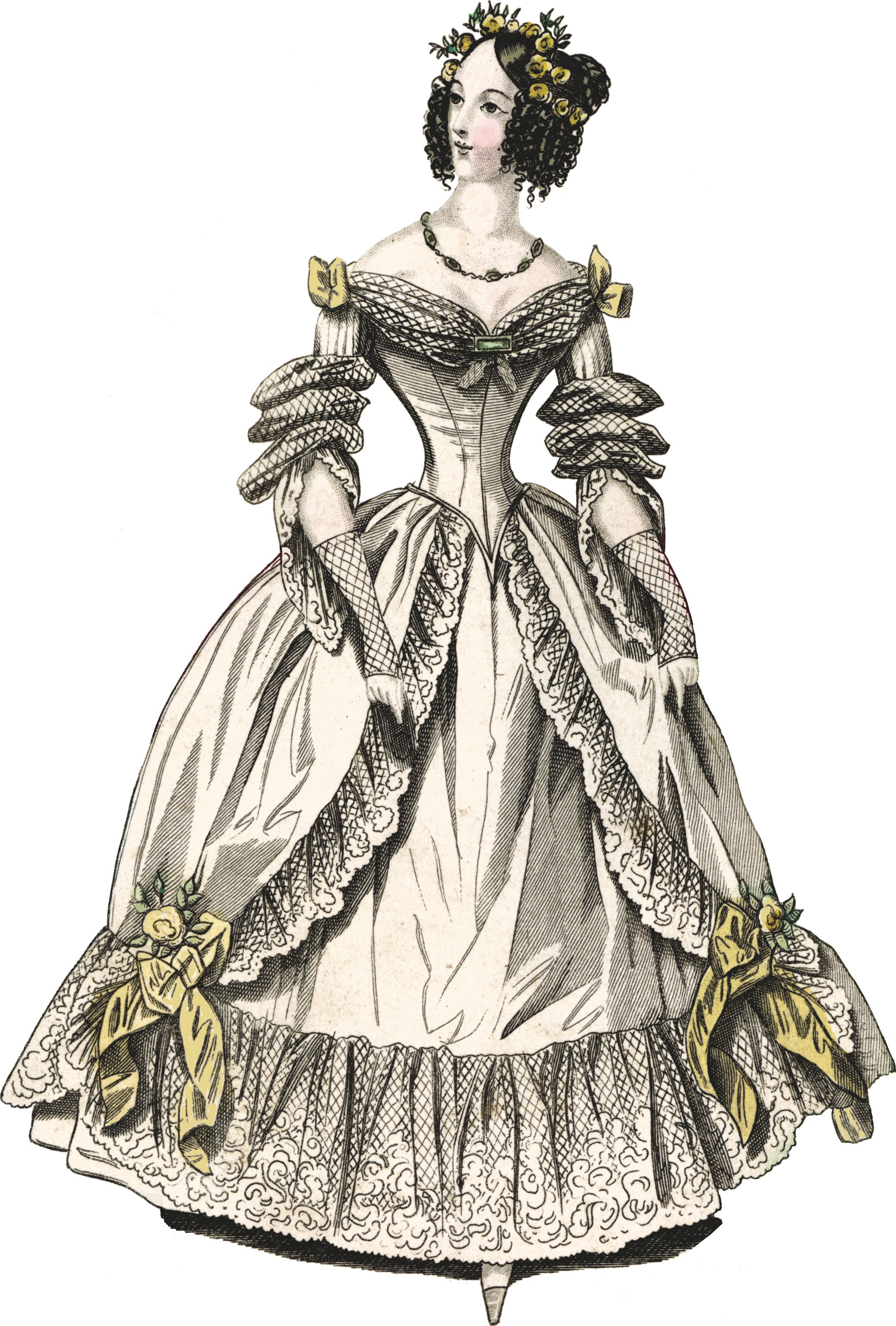 Fig. 2--White satin robe, the border finidhed with a deep flounce of real lace, and the front of the skirt trimmed en tablier with lace ; it is terminated upon the flounce by a knot of oiseau ribbon and a flower. The eorsage deeply pointed at bottom, and draped à la Sevigné at top, is ornamented on the shoulder with knots of ribbon ; the drapery of the corsage is formed of reseau, as is also the biais that ornament the sleeves. The latter are terminated with lace manchettes à la Venitiennne. Head-dress of hair, ornamented with flowers.